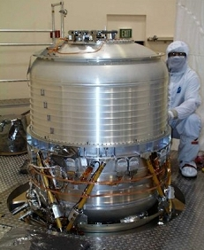 Cryostat of Spitzer Space Telescope